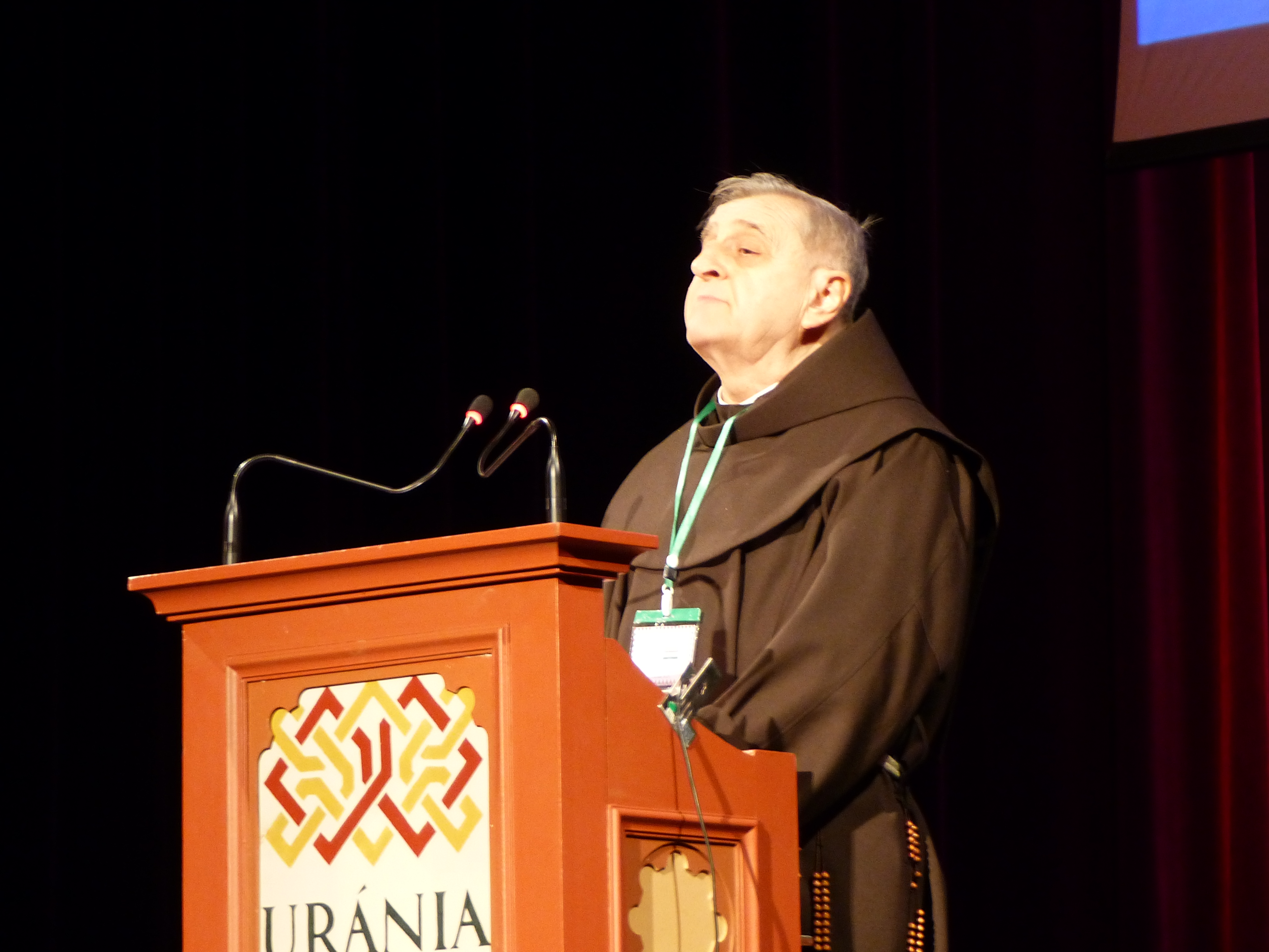 Barsi Balázs atya (francescano). Taken on the 16th of November, 2017. Uránia, Budapest, Hungary. Civilitika Symposium.